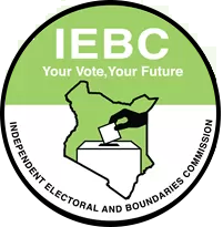 Emblem of the Indepedent Electoral and Boundaries Commission Kiswahili: Nembo ya Indepedent Electoral and Boundaries Commission